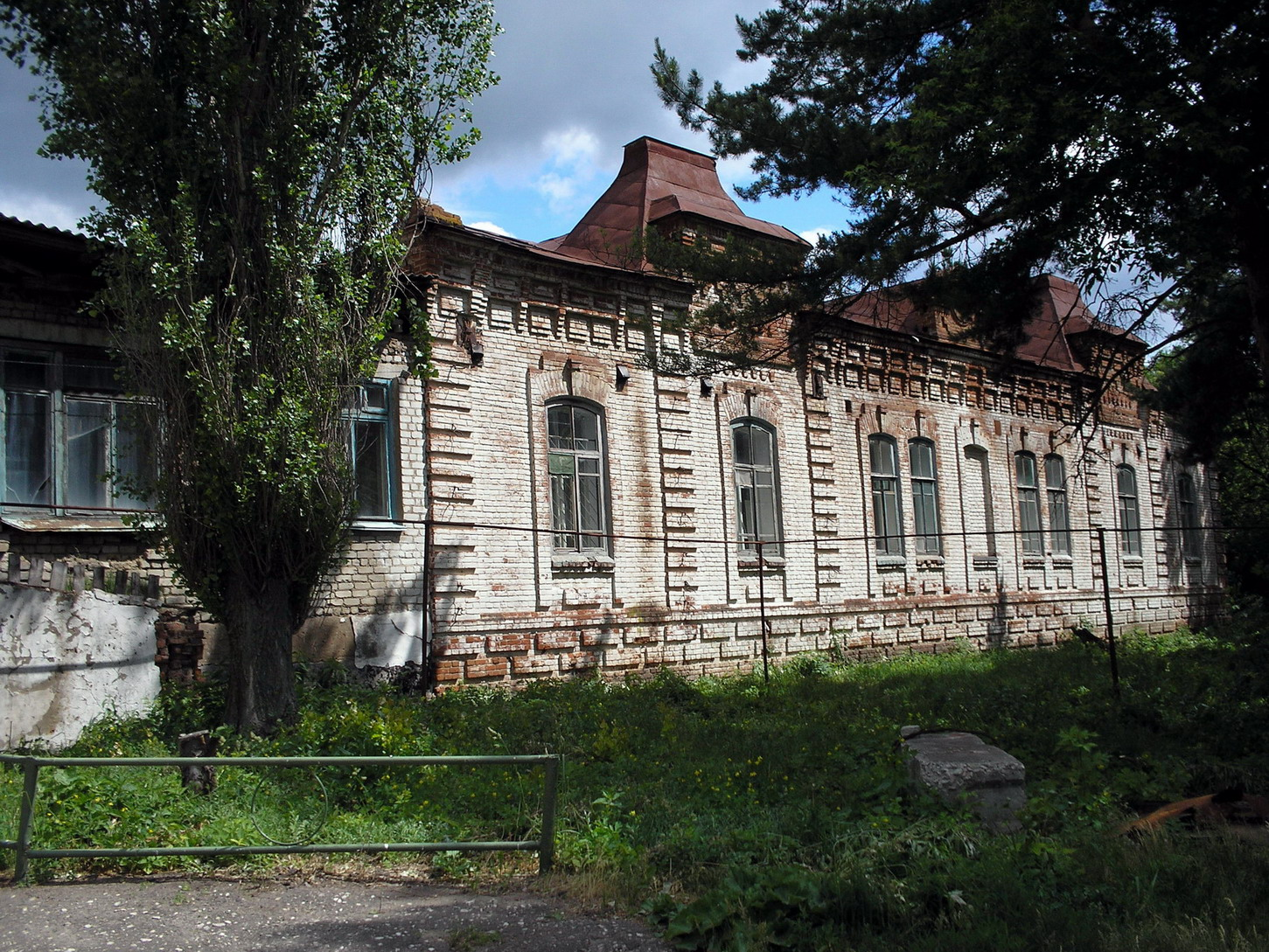 Rtishchevsky hospital (1904)